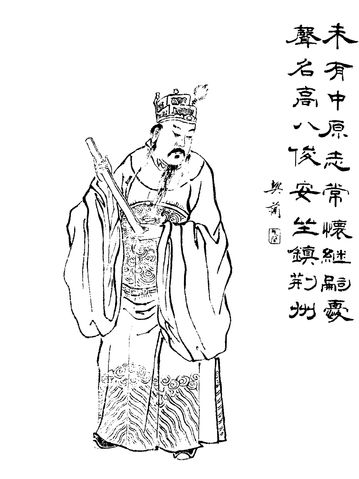 A Qing dynasty portrait of Liu Biao